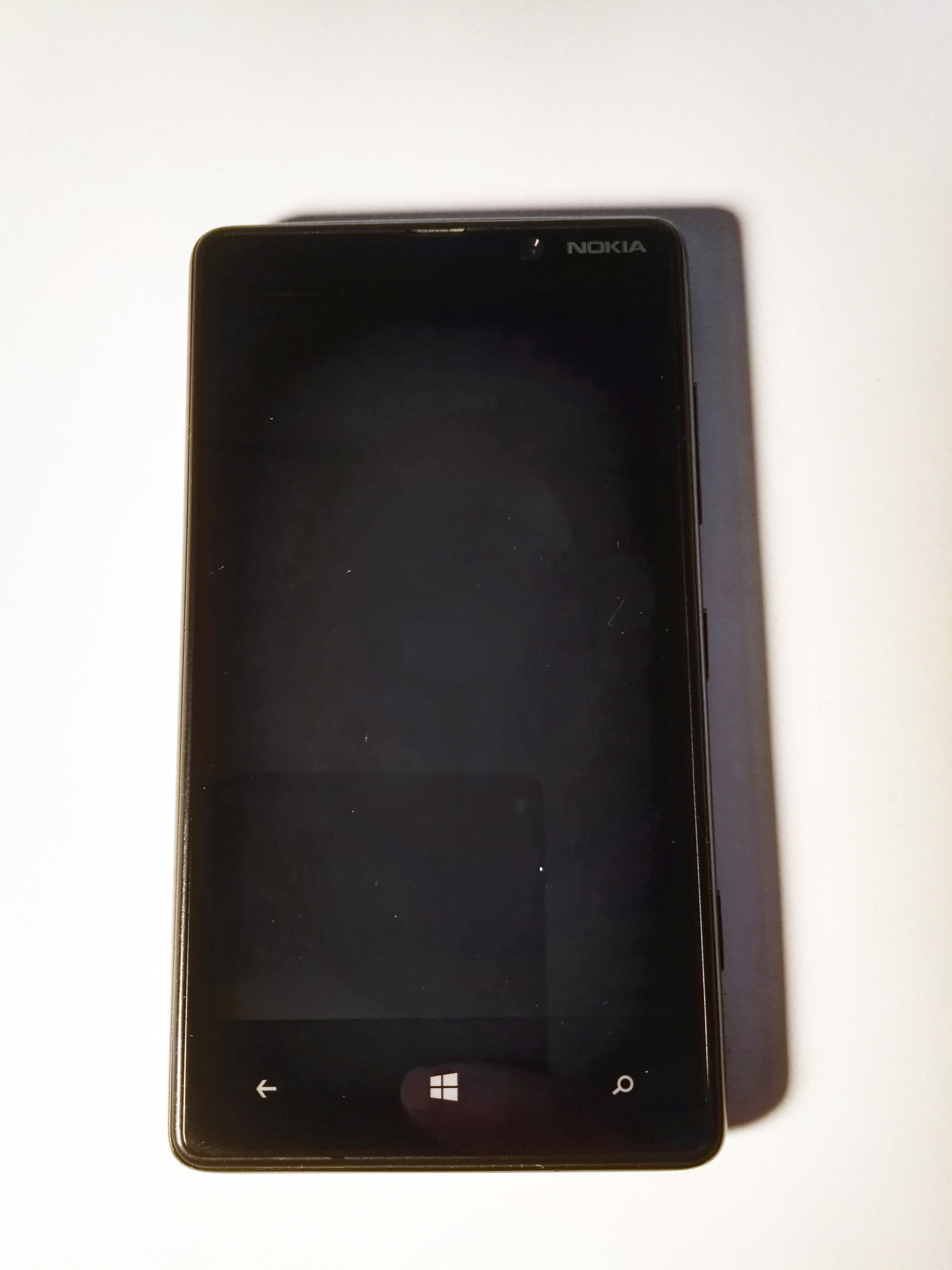 Nokia Lumia 820, front face